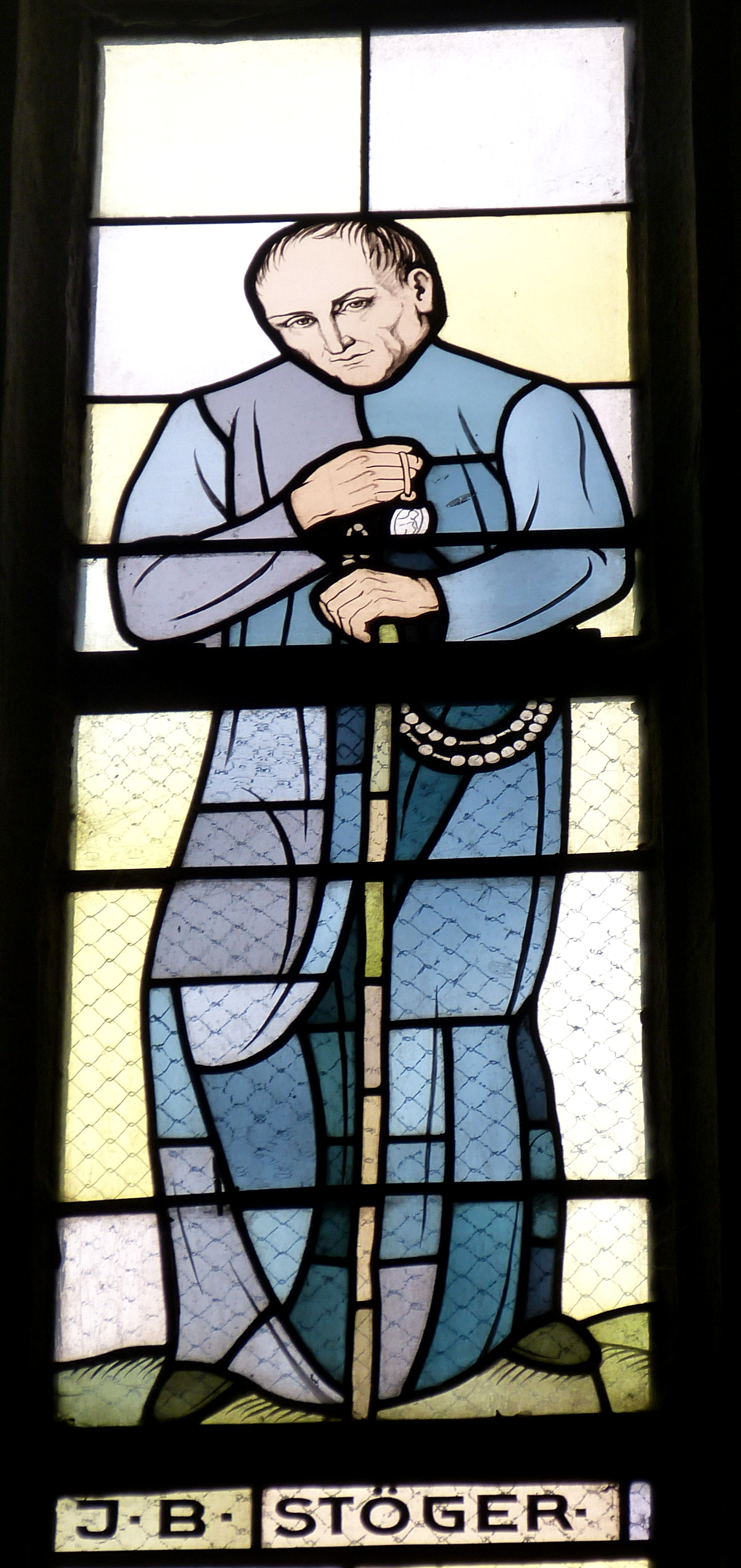 Eggenburg ( Lower Austria ). Redemptorist church - Stained glass window ( 1935 ) showing beatified Johann Baptist Stöger.